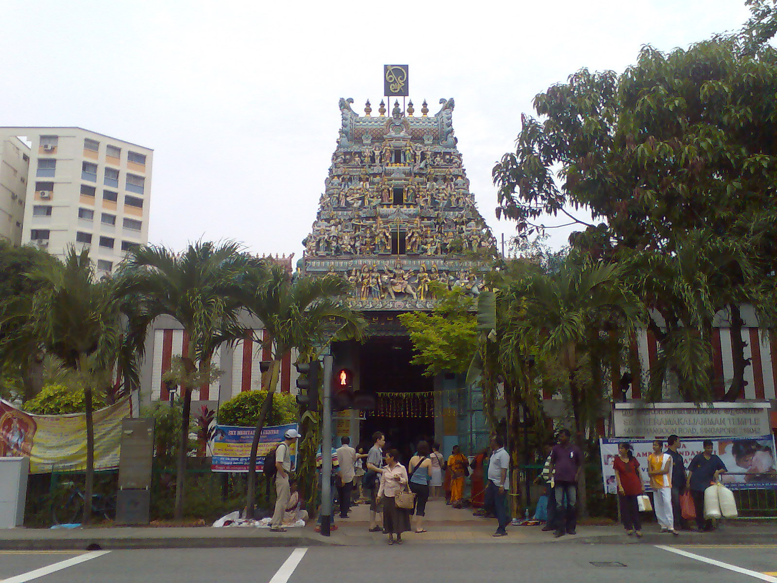 Veeramakaliamman Temple, Serangoon Road, Singapore.